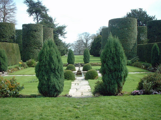 Garden at Arley Hall